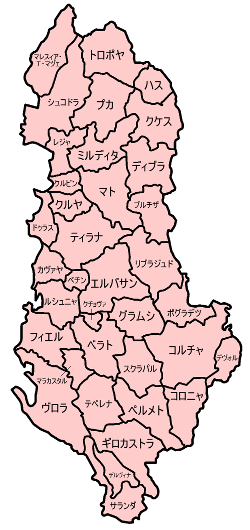 Map of the districts of Albania in Japanese, using the list from . If there is anything wrong with this, please contact me.